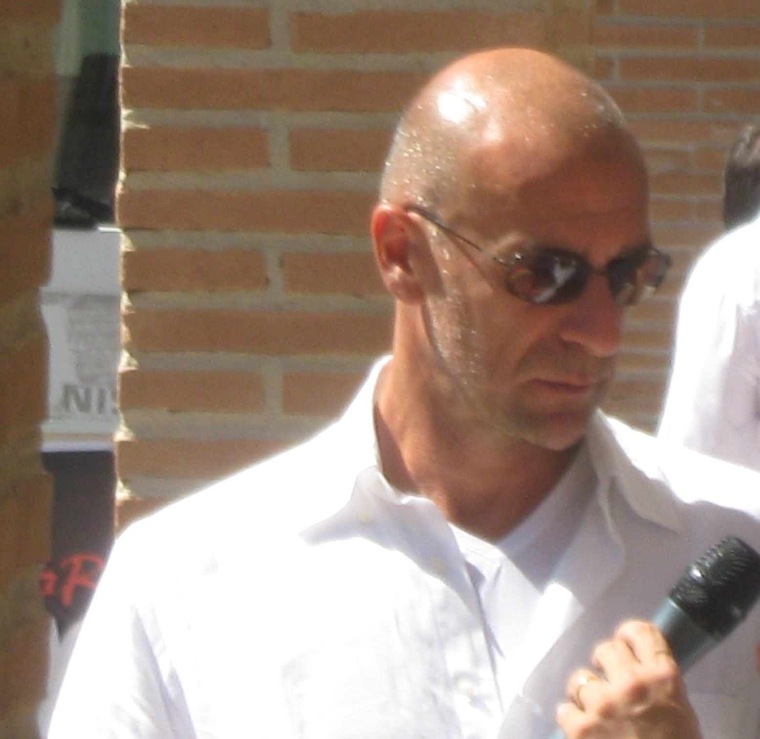 Davide Ballardini at the new kits' presentation on 08 July 2009.